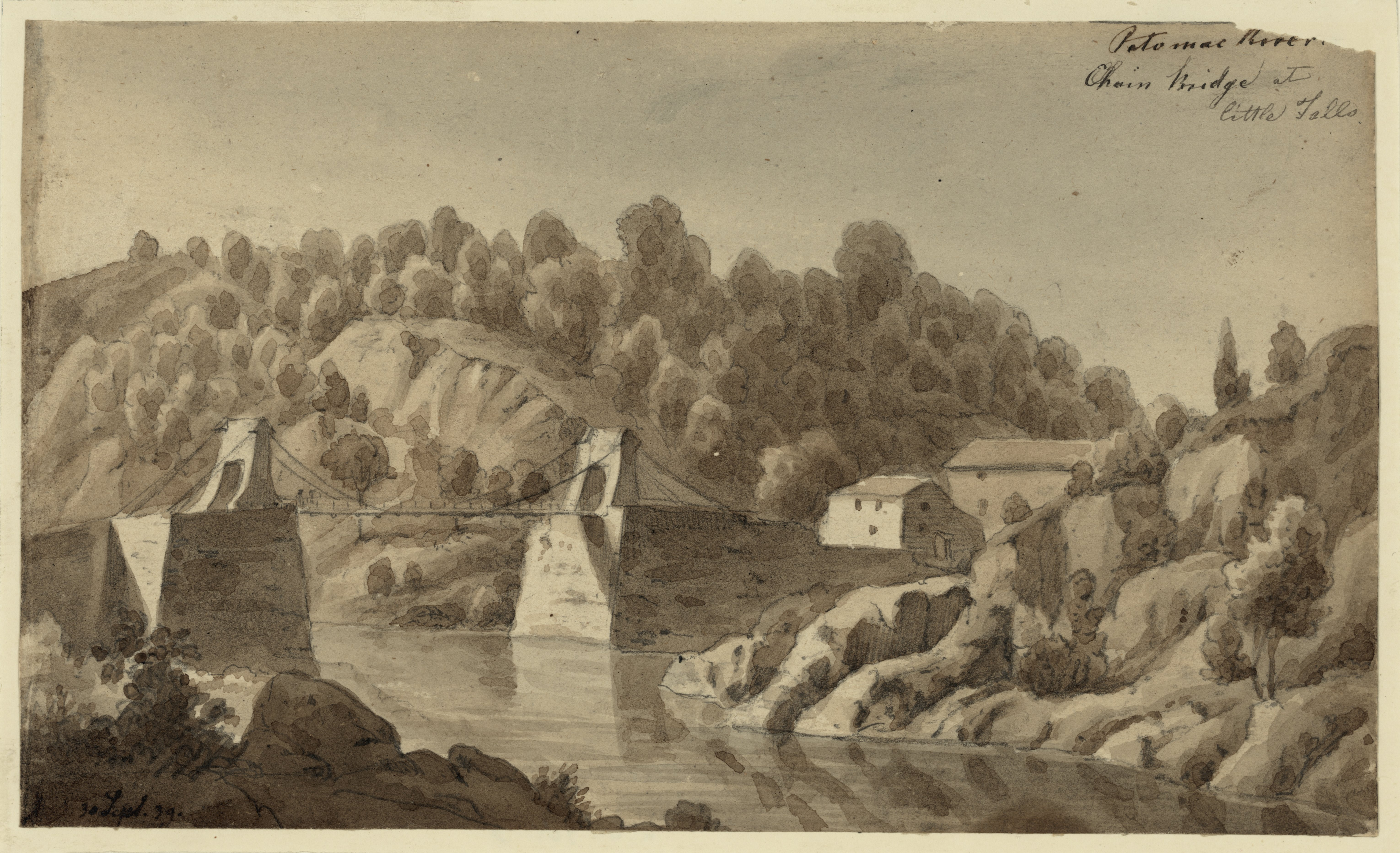 View from the Maryland side of the Chain Bridge over the Potomac River in 1839. This was the fourth bridge at that location, with several more since.